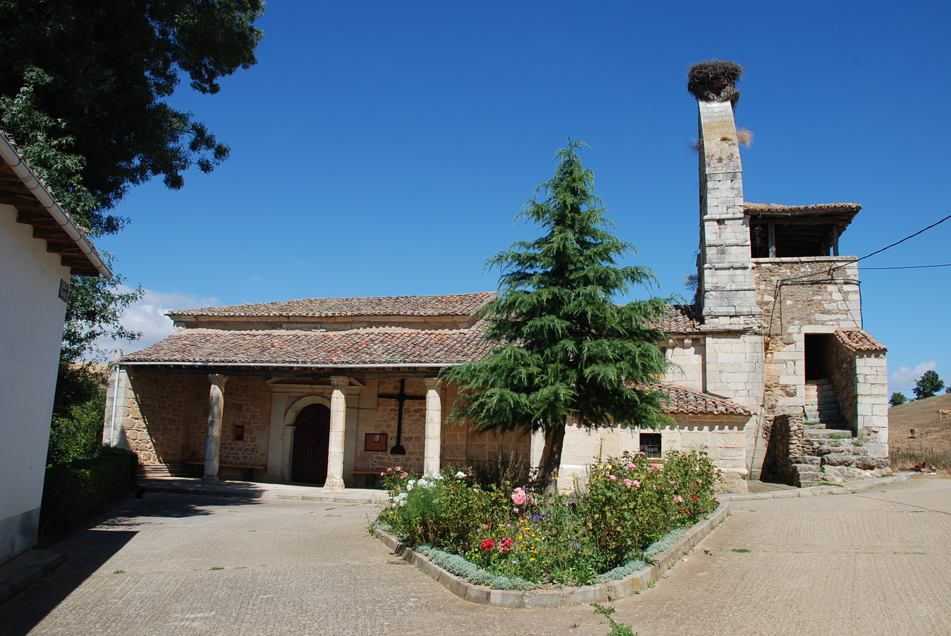 Church of San Miguel in Riosmenudos de la Peña (Palencia, Castile and León).